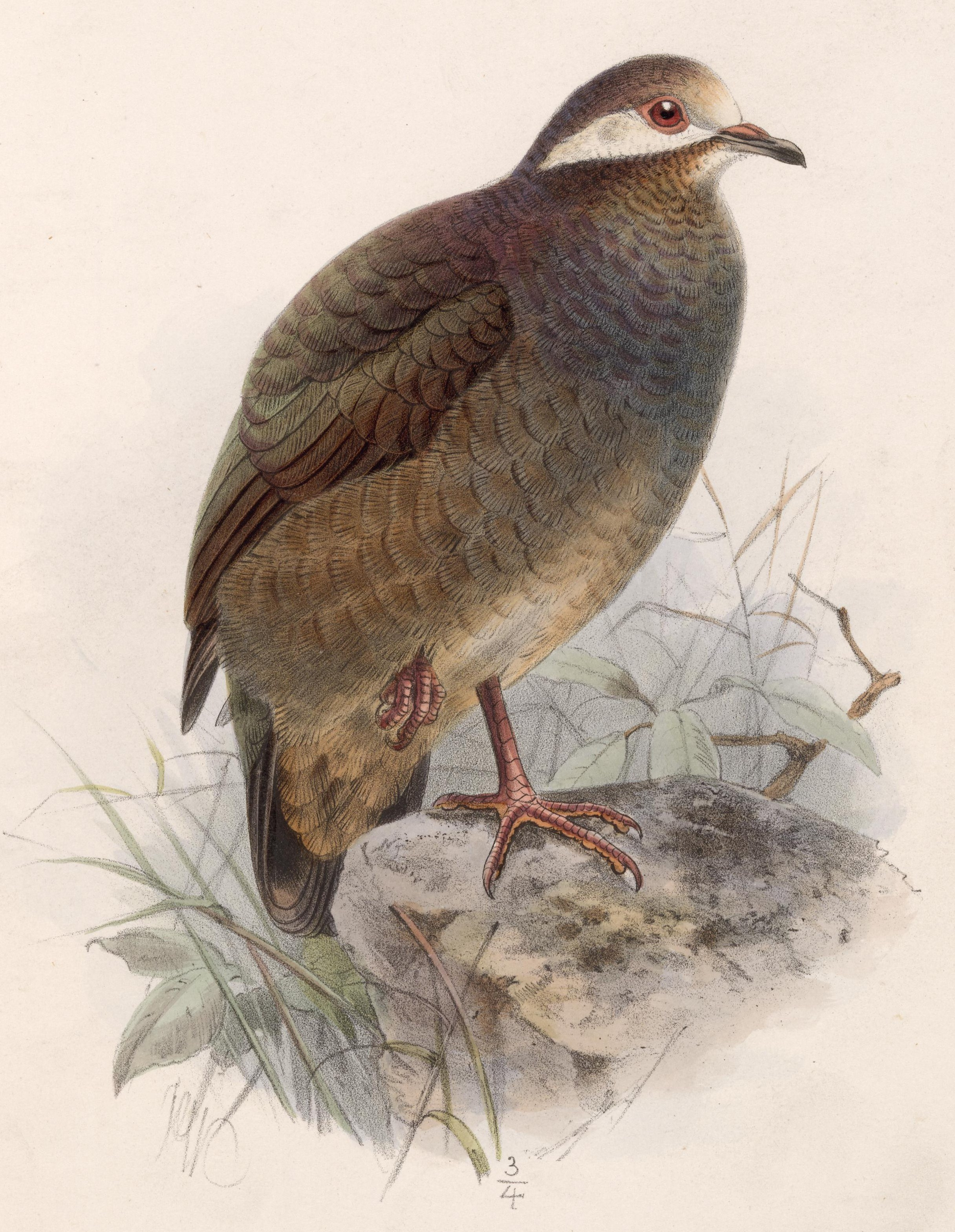 « Geotrygon rufiventris » = Geotrygon veraguensis (Olive-backed Quail-Dove)